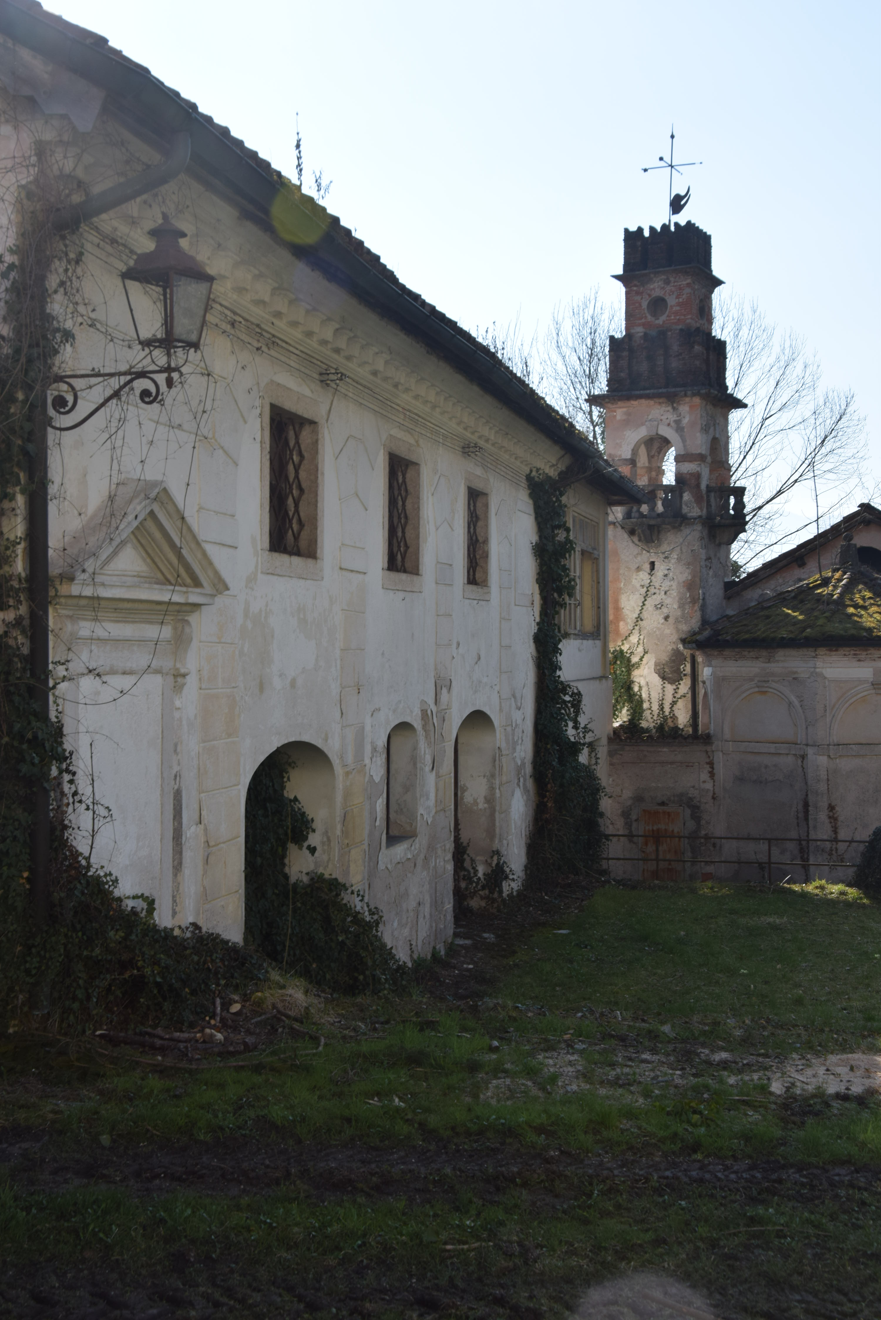 L'esterno della villa